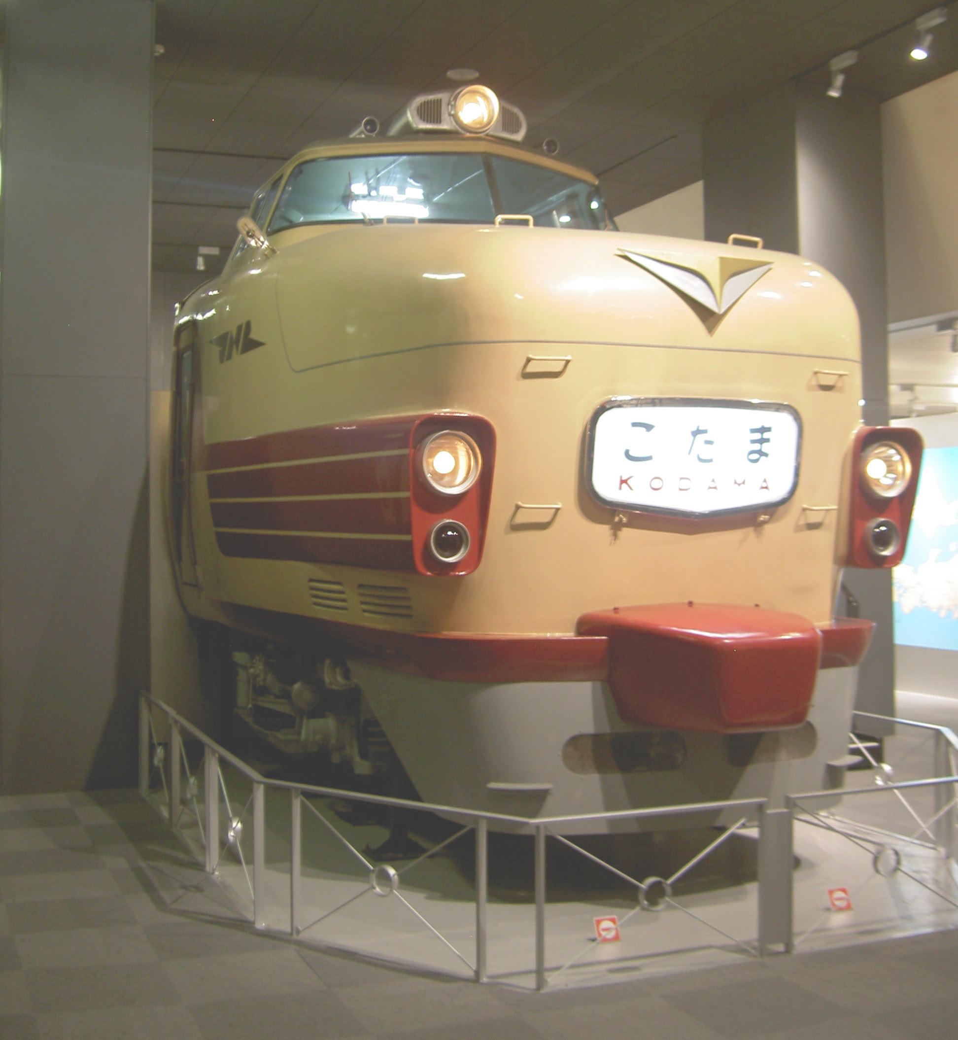 The cut model of "Kodama" Type 151 train, displayed in Modern Transport Museum, Osaka. Photograph taken by Type951. Originally uploaded to Japanese Wikipedia by the photographer. The image trimmed and refined by Kzaral.